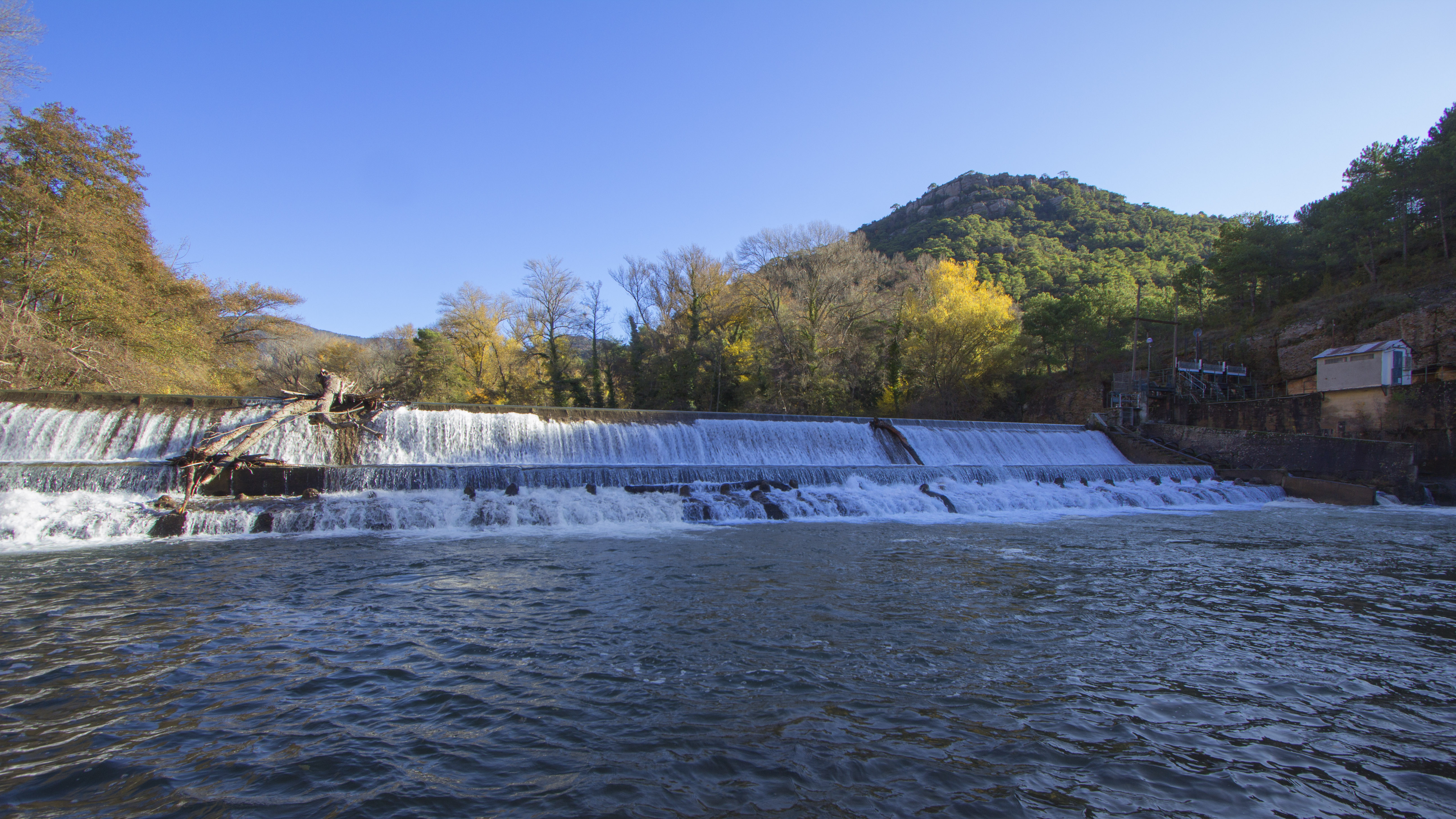 Sossís dam, view from the riverbank (Catalonia)